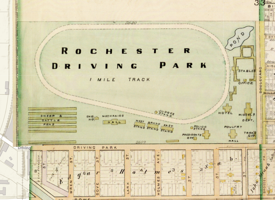 Plan of Rochester, New York Driving Park grounds in 1888